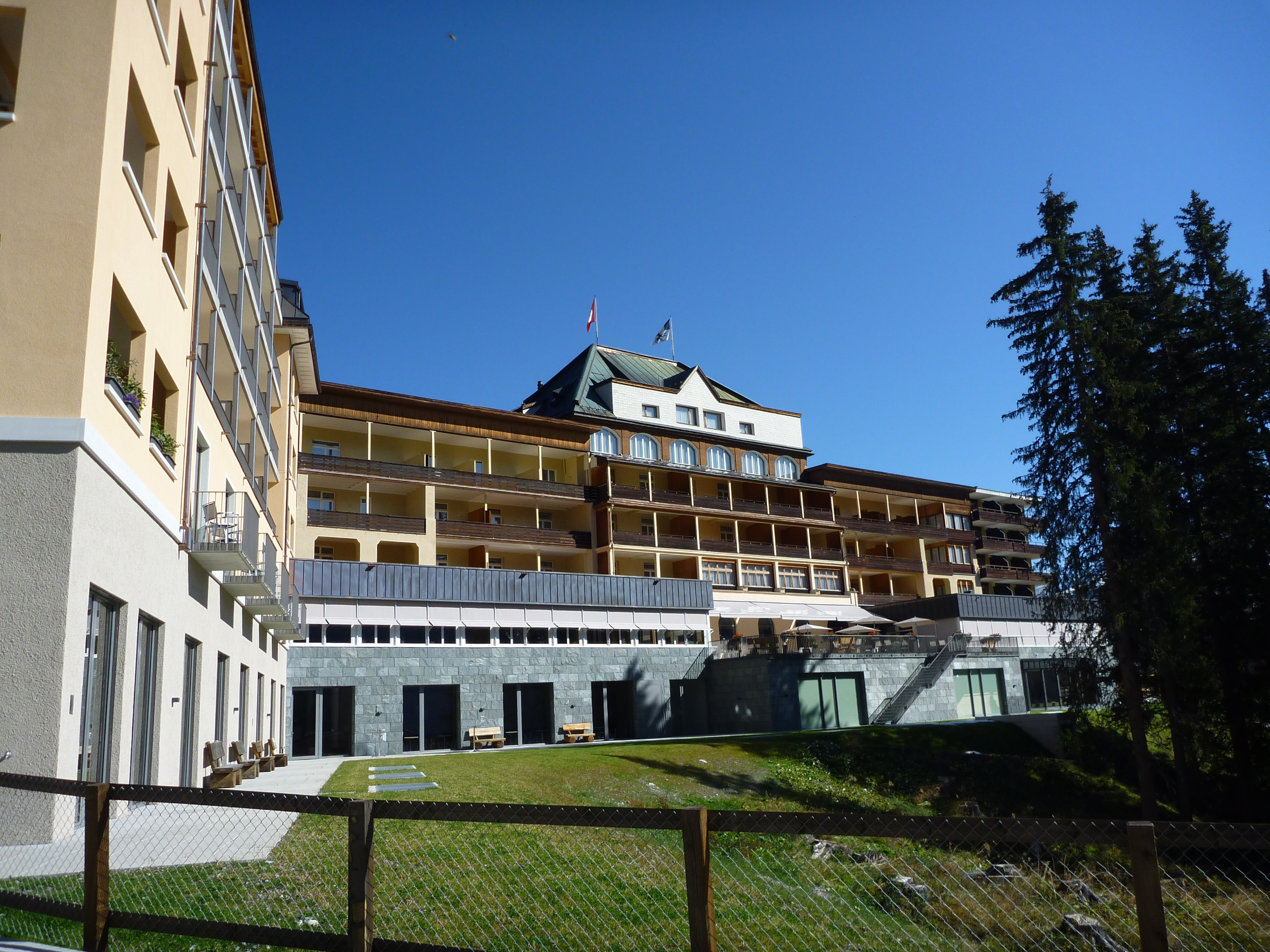 The Waldhotel National in Arosa